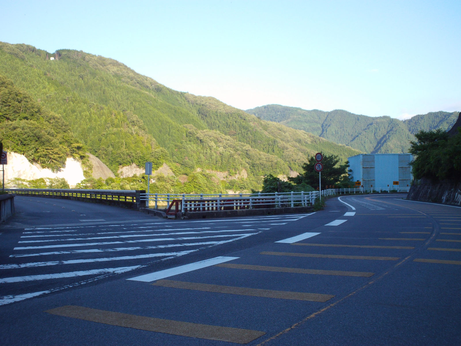 The Aichi Prefectural Road Route 356 at Yahagi Dam